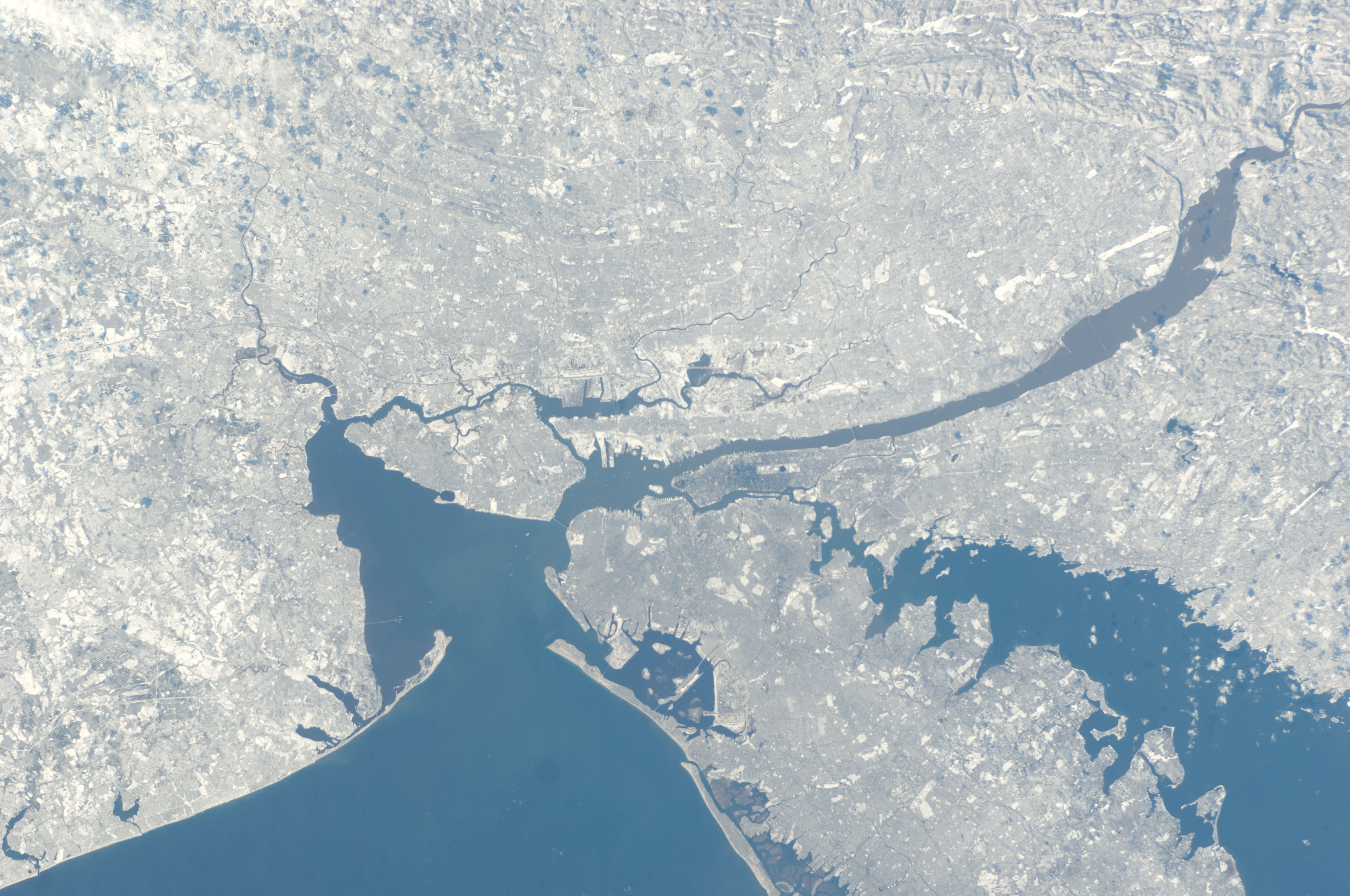 Port of New York and New Jersey from International Space Station January 2011. The Atlantic Ocean is to the southeast of the port. The sea at the entrance to the port is called the New York Bight; it lies between the peninsulas of Sandy Hook and Rockaway. The Lower New York Bay and its western arm, the Raritan Bay, lead to Arthur Kill or Raritan River or to the north to The Narrows To the east lies the Rockaway Inlet, which leads to Jamaica Bay. The Narrows connects to the Upper New York Bay at the mouth of the Hudson River, which is sometimes called the North River. To the west lies Kill van Kull, the strait leading to Newark Bay, fed by the Passaic River and Hackensack River, and the northern entrance of Arthur Kill. The Gowanus Canal and Buttermilk Channel are east of Governors Island. The East River is a broad strait that travels north to Newtown Creek and the Harlem River, turning east at Hell Gate before opening to Long Island Sound, which provides an outlet to the open sea.